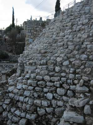 Jebusite wall, City of David - The Walls of the Jebusite city, prior to David's conquest. Jerusalem (before 1000 BCE) / Vjerojatne zidine jebusejskog grada prije Davidova osvajanja. Jeruzalem (prije 1000. pr.Kr.).